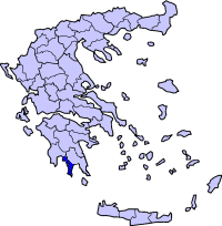 Location of Mani peninsula in Greece